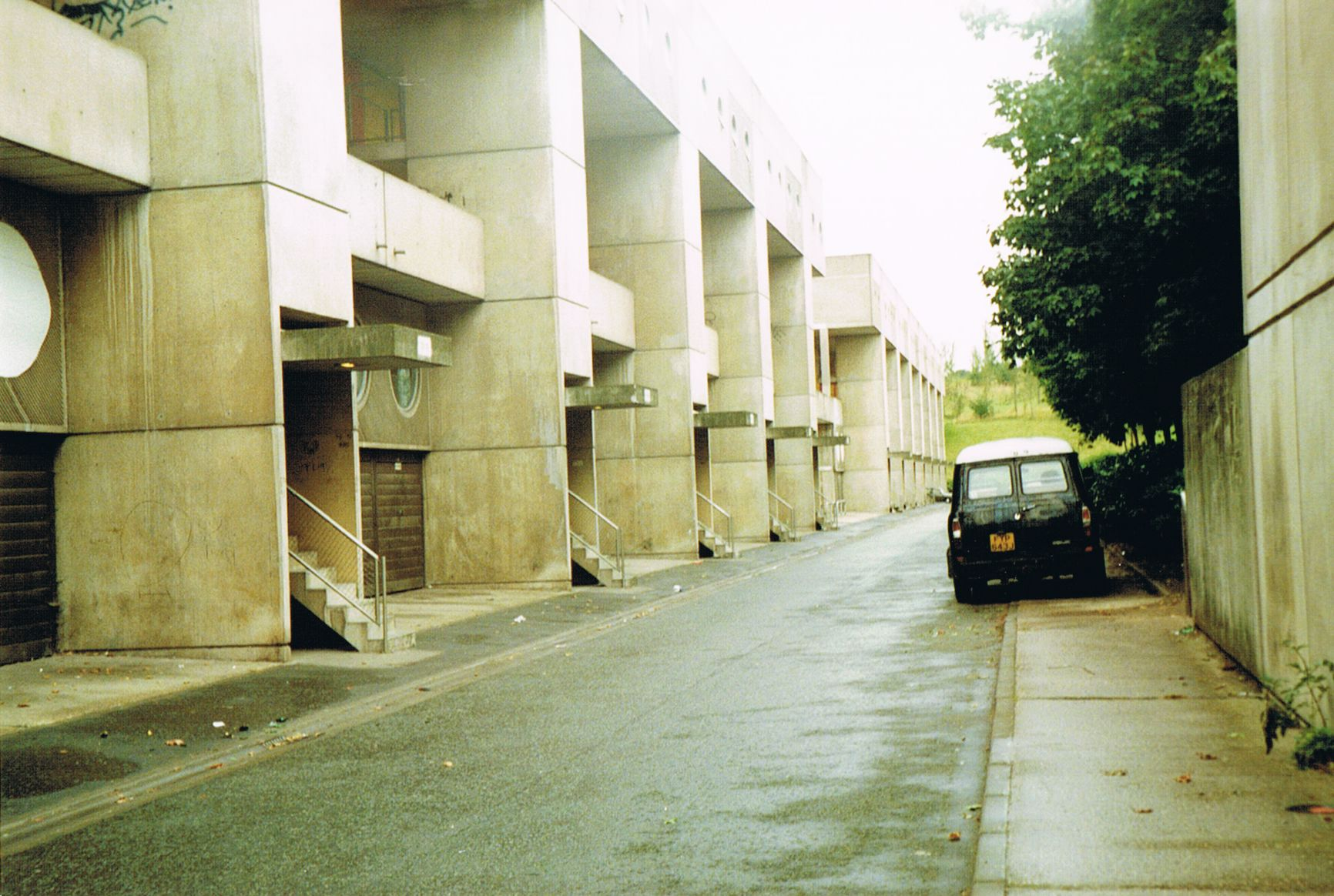 Photo of Southgate Estate in Runcorn, Cheshire, UK, taken in August 1989